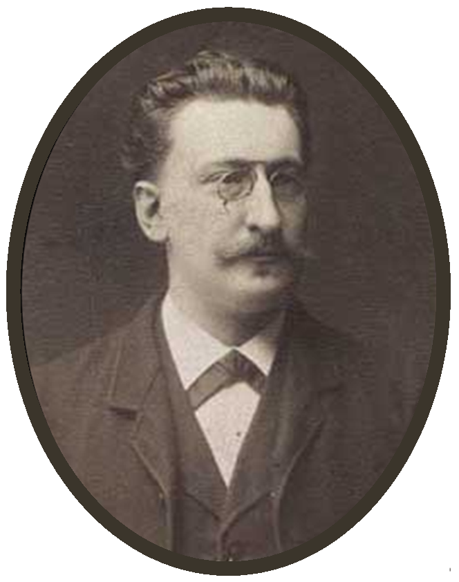 Axel Waldemar Lanzky (1825-1885) var en dansk kontrabassist, kordirigent og komponist. Axel Waldemar Lanzky (1825-1885) was adanish bass-player, choir-leader and composer.